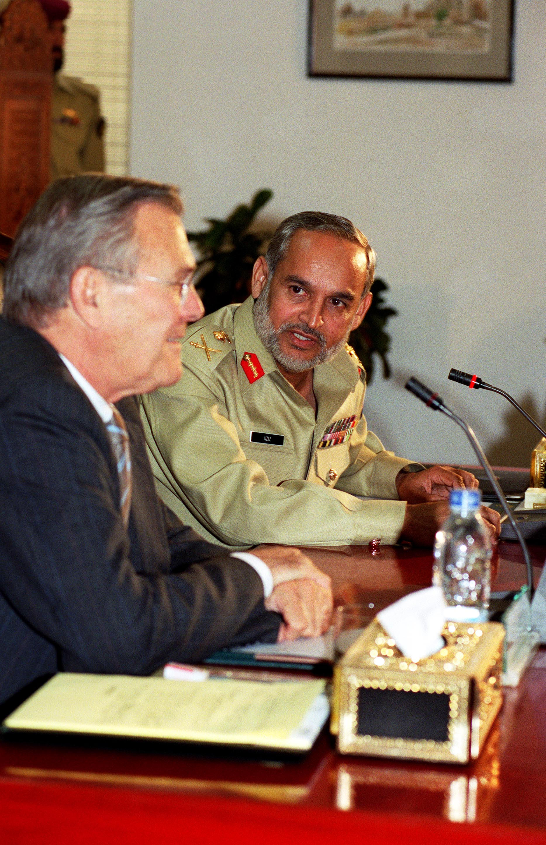 Chairman Joint Chiefs of Staff Committee Gen. Muhammad Aziz Khan (right) begins a bilateral meeting with Secretary of Defense Donald H. Rumsfeld (left) by welcoming him to Islamabad, Pakistan, on June 13, 2002. Rumsfeld is on a 10-day tour of nine countries to meet with senior leaders and to visit with U.S. troops deployed abroad.